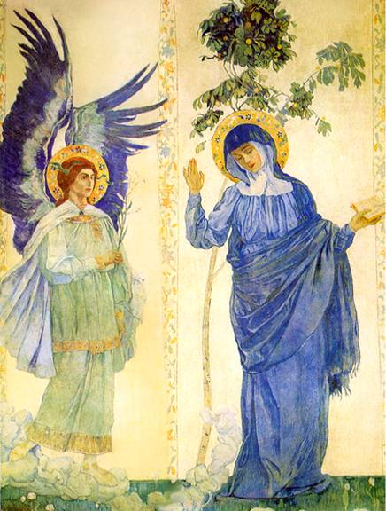 The Annunciation